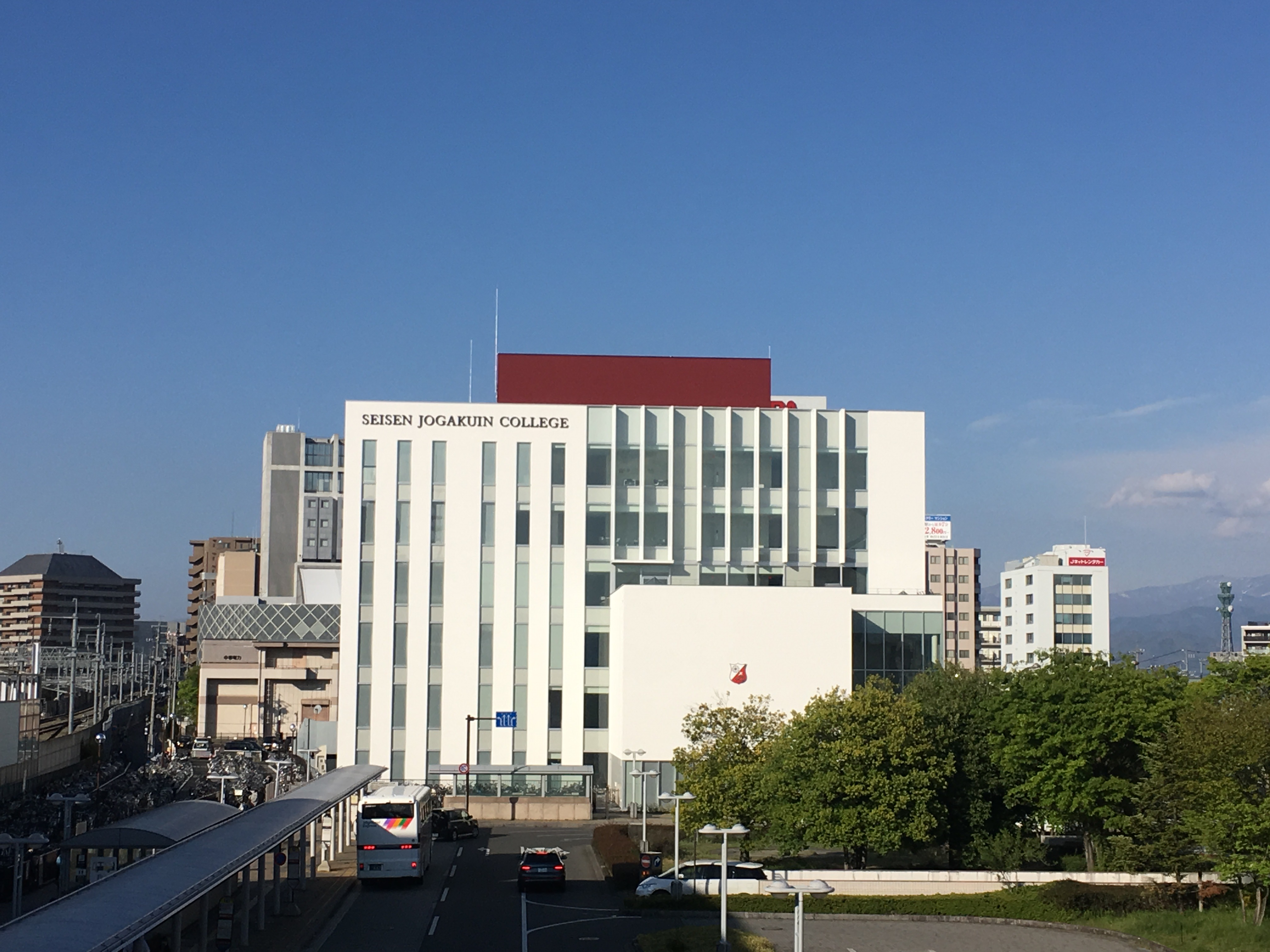 This is a photo of the 2019-open Seisen Jogakuin College at the east exit of Nagano Station.